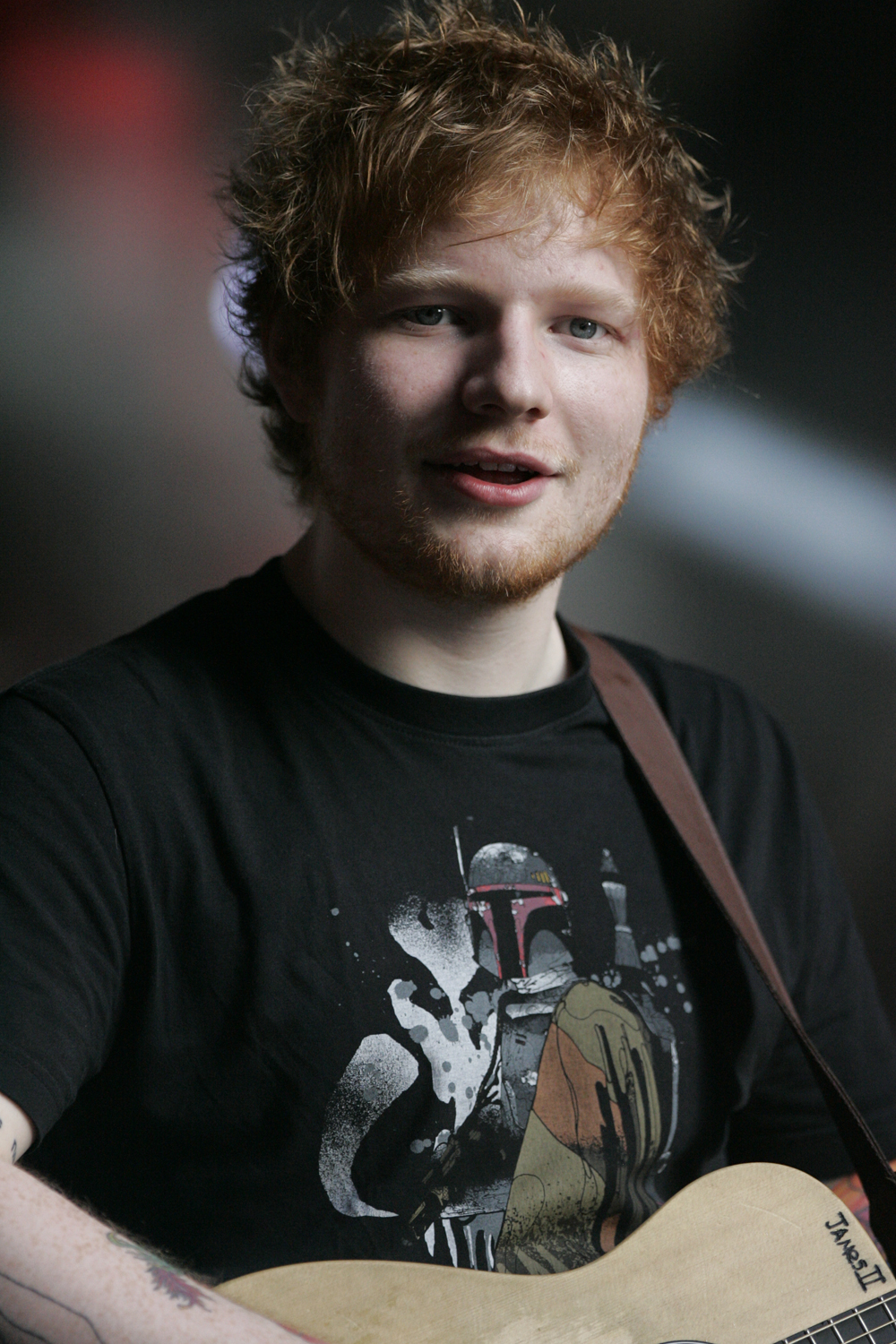 Ed Sheeran performs for Channel Seven's morning program Sunrise and Nova969 in Sydney 2013.